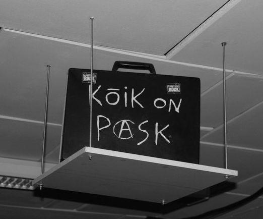 One the sybols of a pub Juudas. Pub is situated in Tõrva, Estonia.